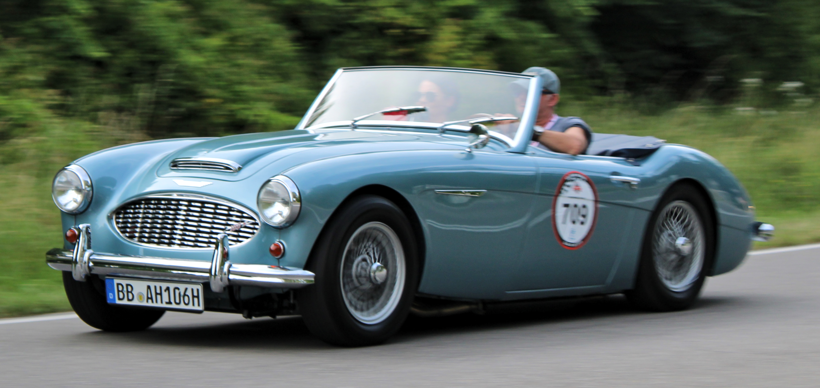 Austin-Healey 100-6 BN4 (1957) at Solitude Revival 2019